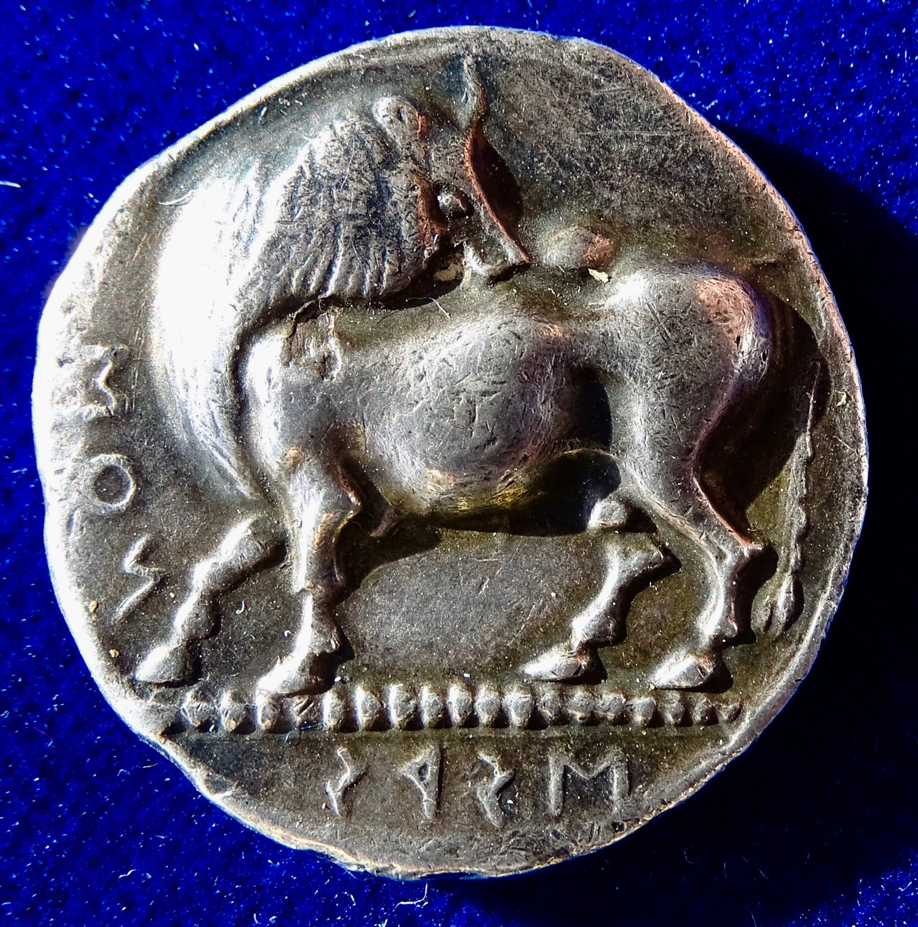 Lucania (southern Italy), Ionian colony Siris, Tetradrachm about 520 B.C. Original creation by Carl Wilhelm Becker. Siris was a Greek colony which at one time attained to a great amount of wealth and prosperity; however, its history is extremely obscure and uncertain. D. = 28 mm. 18.69 g Ag Standing Bull l. looking back. In ex and at l.: "MZPZNOM"/ Bull incuse standing r., and looking l. In exergue and at r.: "PVXOEM. Forrer I, p.145, no. 11; Sir George Hill, Becker the Counterfeiter, no. 11. Medallist: Carl Wilhelm Becker, 1771 Speyer - 1830 Bad Homburg, Germany Becker was one of the most skilful counterfeiters of ancient coins of all times. The dies of his Greek counterfeits now belong to the Berlin Bode Museum. The Bode Museum is one of the group of museums on the Museum Island in Berlin. Originally called the Kaiser-Friedrich-Museum after Emperor Frederick III, the museum was renamed in honour of its first curator, Wilhelm von Bode, in 1956. It is part of the Berlin State Museums. In 1999, the museum complex was added to the UNESCO list of World Heritage Sites. Condition: The original silver strike by Becker had been "taken for a drive" with iron fillings in a box attached to the wheel of his carriage. So it looks a bit worn in comparison to the copper strike from the original dies.